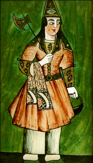 Darvish